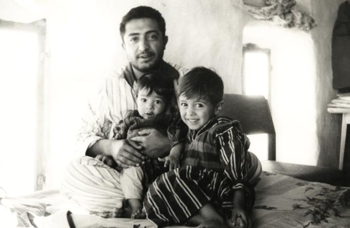 former predisnt of Yemen Ibrahim Al-Hamdi. Al-Hamdi was assassinated in 1976